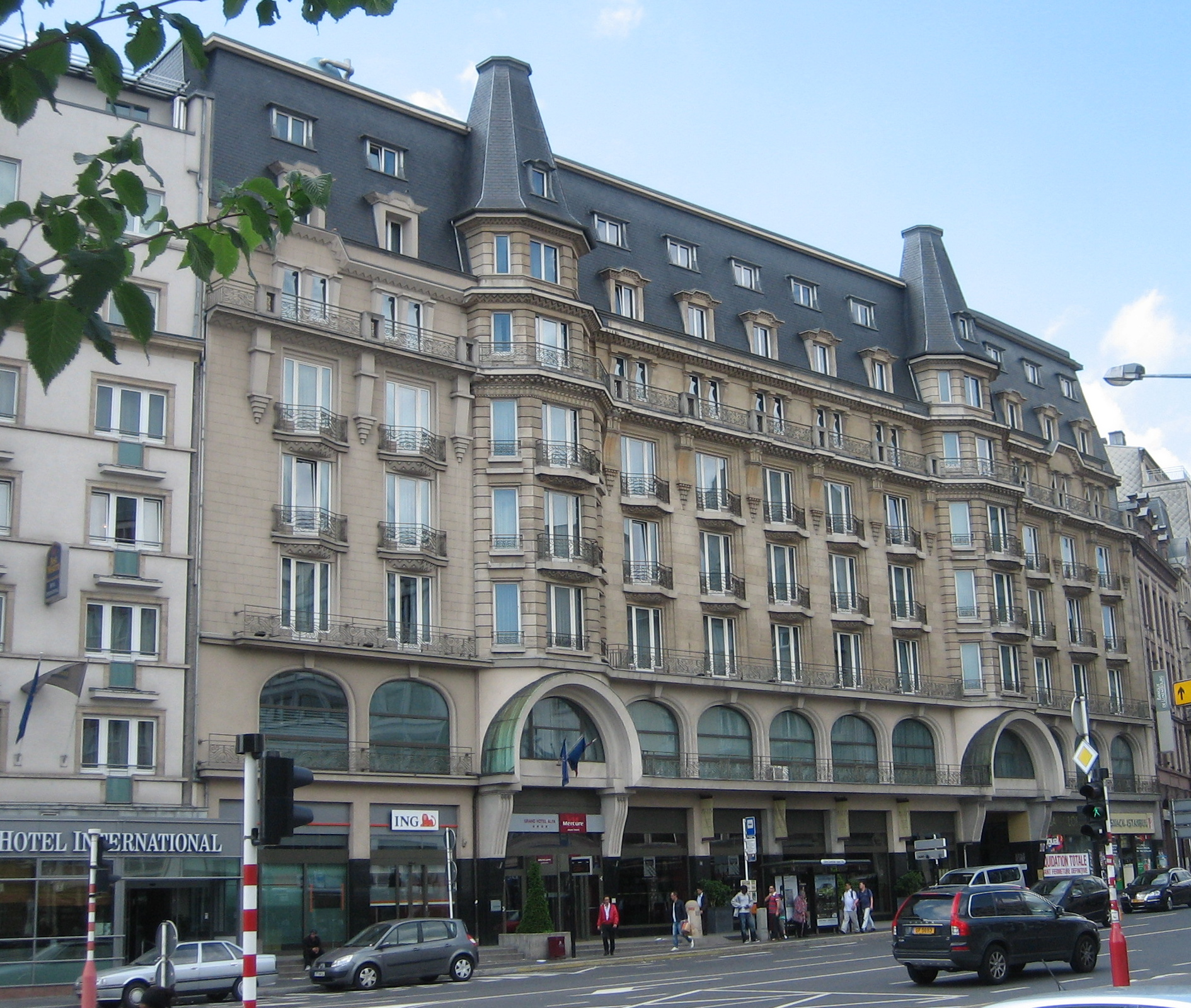 Hotel Alfa om Place de la gare in Gare quarter of Luxembourg City, listed on the Inventaire supplémentaire of classified national monuments since 14 May 1991.